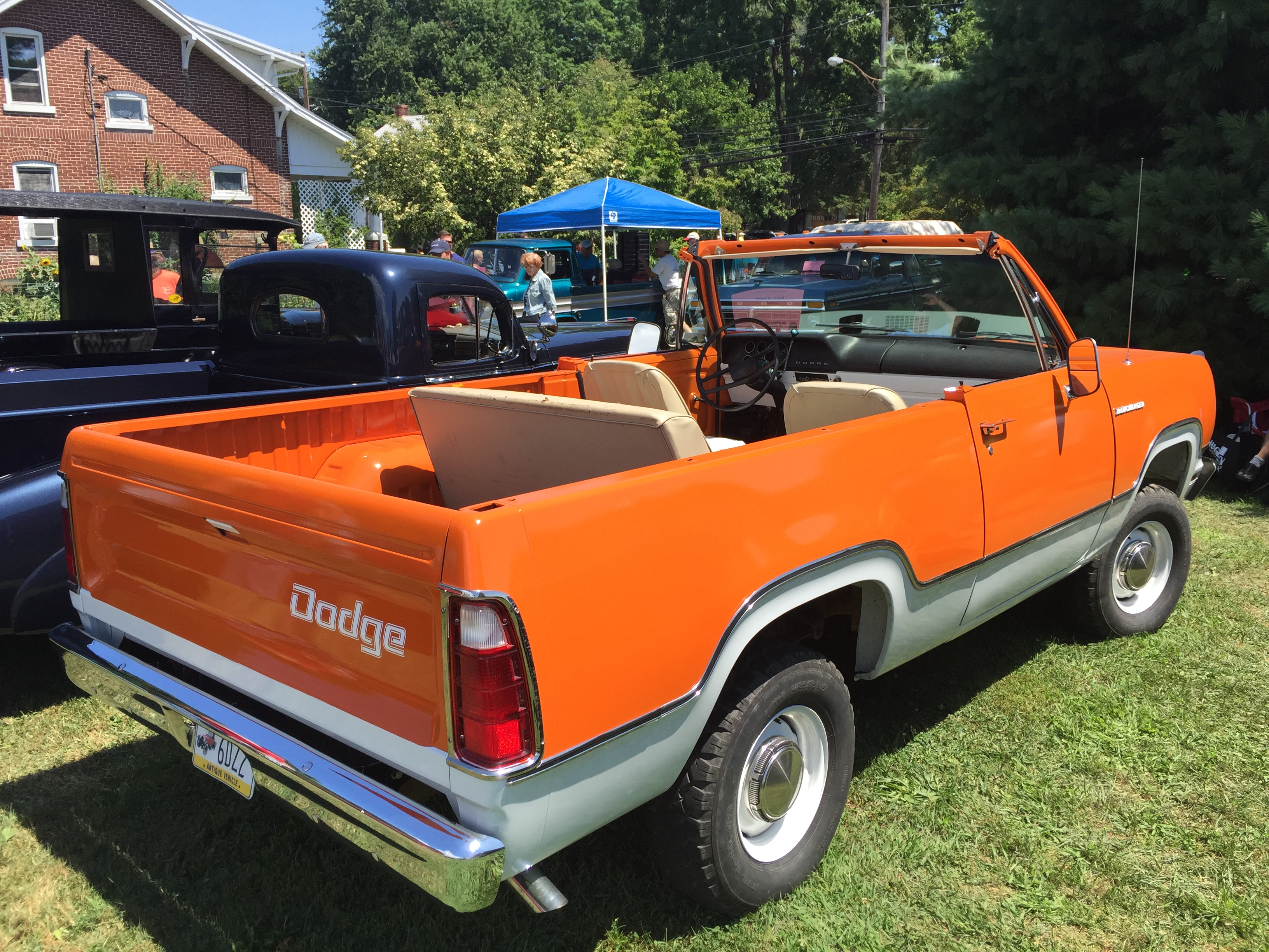 1974 Dodge Ramcharger, a large-sized, basic utility vehicle (now termed "Sport Utility Vehicle" - SUV) marketed by Dodge. The Ramcharger was based on the shortened wheelbase of the Dodge D Series/Ram pickup truck chassis. The vehicles came with no roof and even the passenger seat (as well as the rear bench) were optional. It is in factory condition, without modifications or customization, and has not been butchered in any way. It is topless and finished in the optional two-tone orange and white paint. Picture taken at the 52nd Annual "Das Awkscht Fescht" antique car show in Macungie, Pennsylvania.